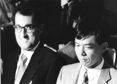 Edward Witten (left) and Shigefumi Mori (right)